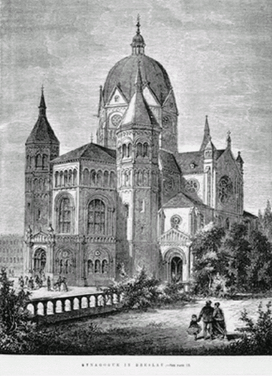 Synagogue in Breslau (Wrocław)